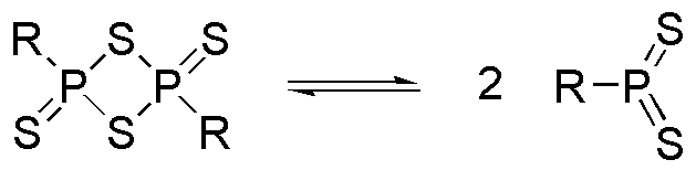 Schematic representatin of the equilibrium between 1,3,2,4-dithiadiphosphetane 2,4-disulfides and dithiophosphine yilde.